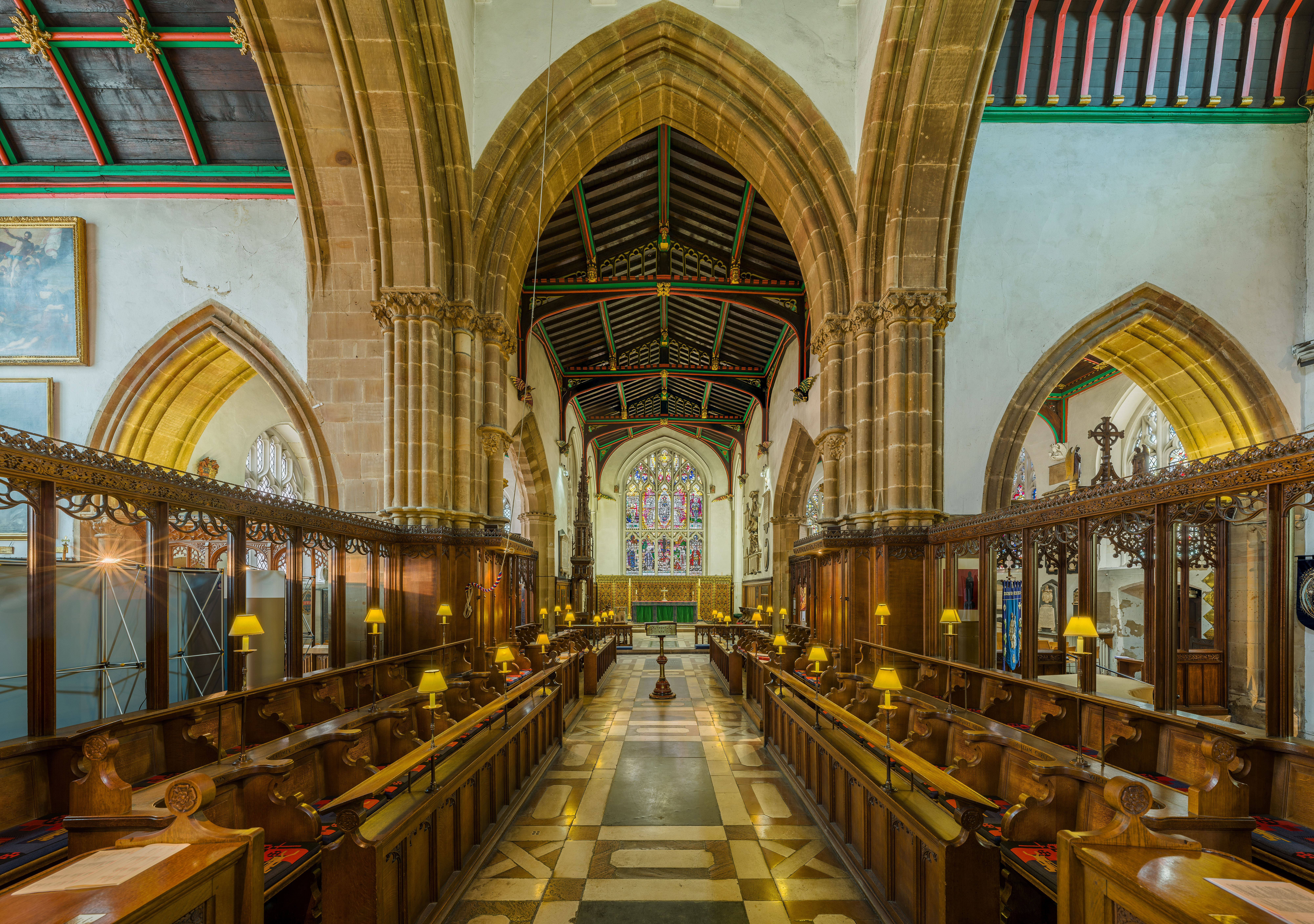 The choir of Leicester Cathedral looking east, in Leicestershire, England.